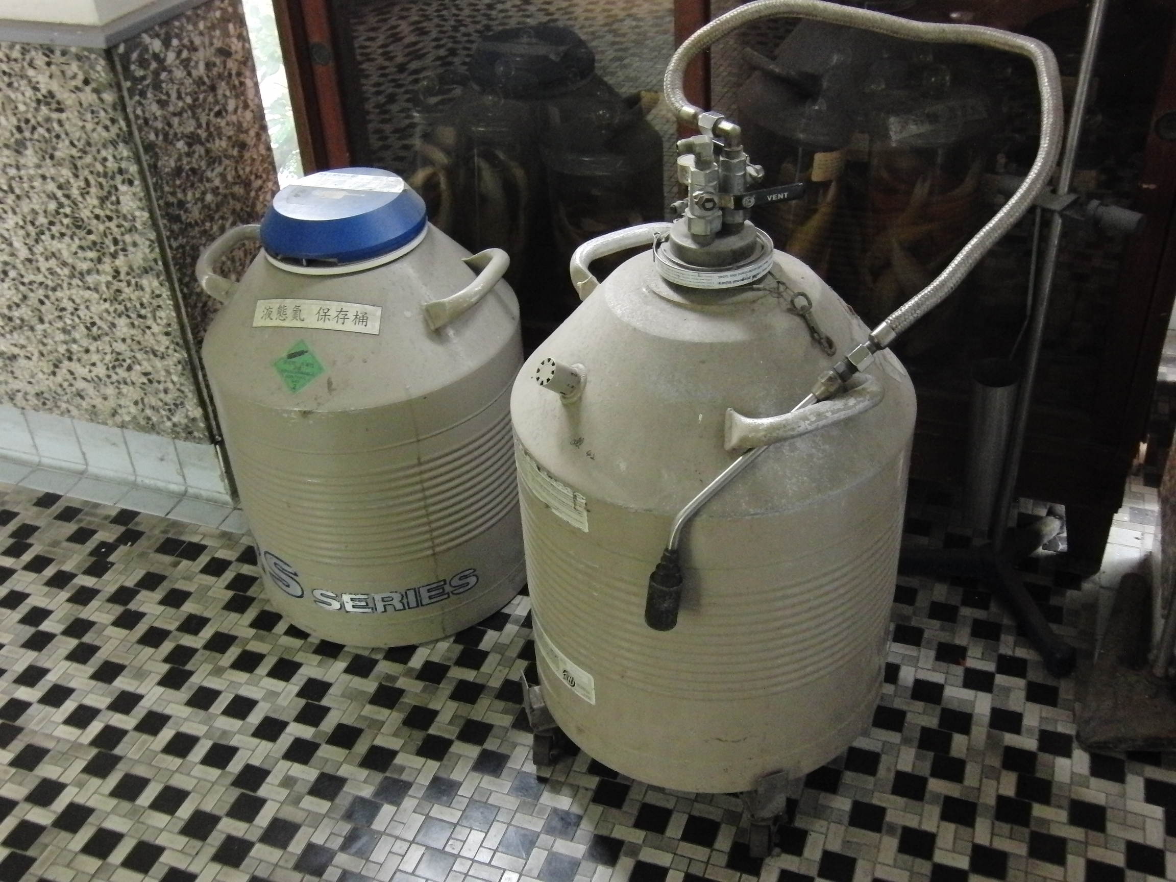 Liquid nitrogen tank